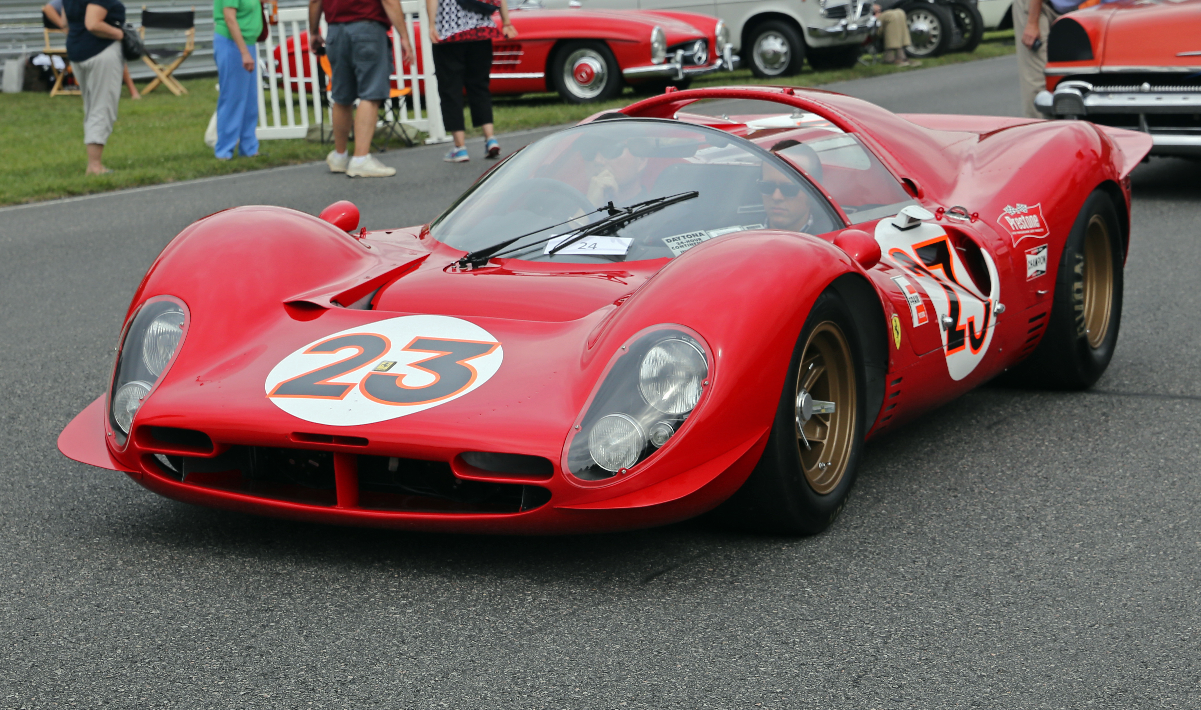 The 1966/1967 Ferrari P3/4 of James Glickenhaus. Chassis no 0846 was originally converted from a P3 by Ferrari in December 1966, retaining a lot of vestigial P3 features such as the front end and some other bits. The still somewhat controversial car was long thought scrapped, but seems to have survived after all and was restored by Glickenhaus.